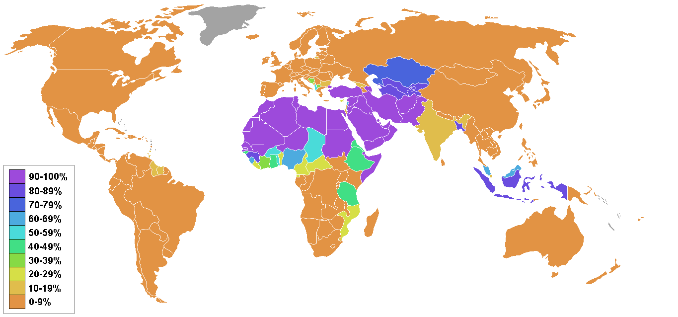 CIA - The World Factbook This is the map of the world showing the percentage distribution of the Muslim population in the world. Please note the Middle East percentages represent mainly the indigenous population (100%) and is not the main representation of Muslims of the country (foreign workers excluded) because in fact, the total Muslim numbers in some Middle Eastern countries (UAE[1], Bahrain[2] , Qatar[3], Kuwait[4][5] and Saudi Arabia[6]) range widely and obviously as less as about over 60% to nearly 90%.